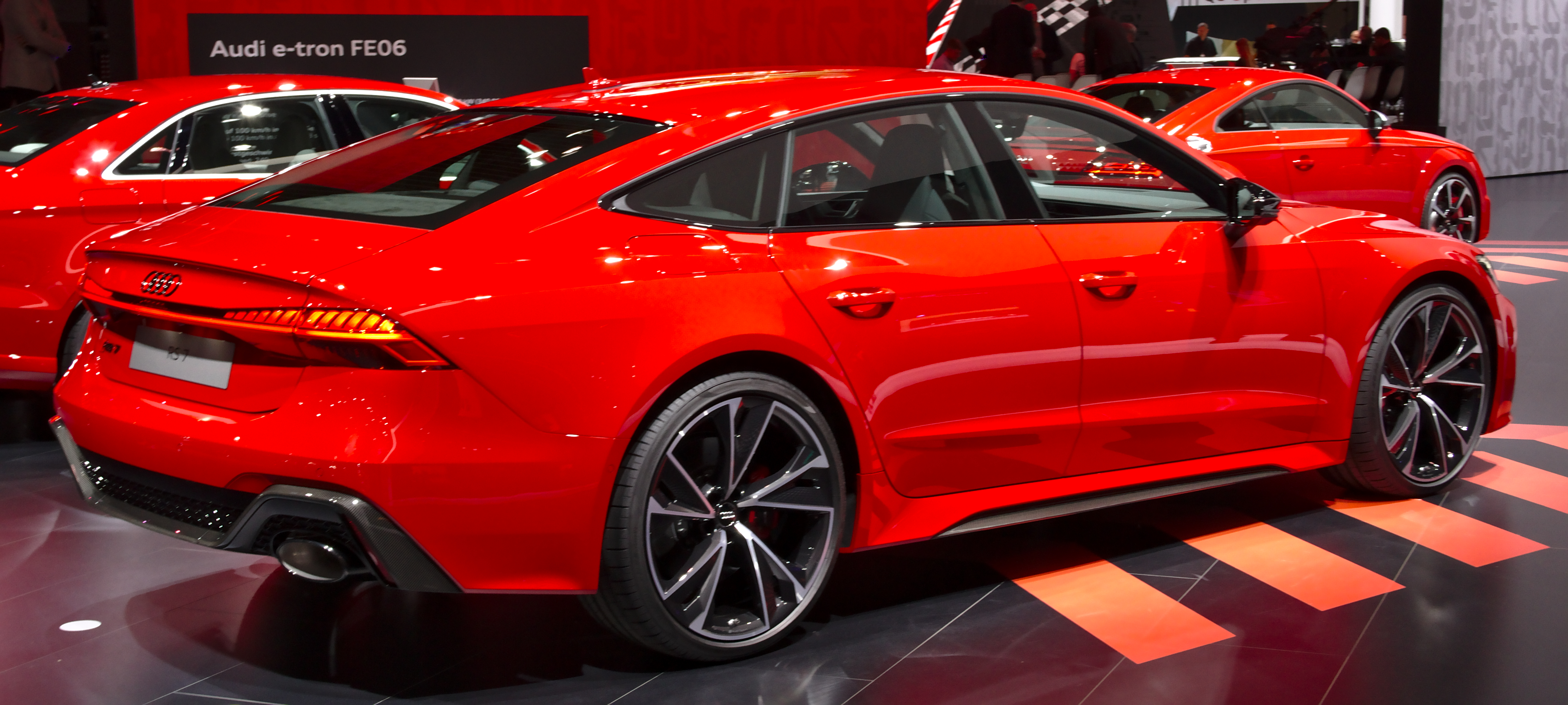 Audi_RS7_C8 at IAA 2019